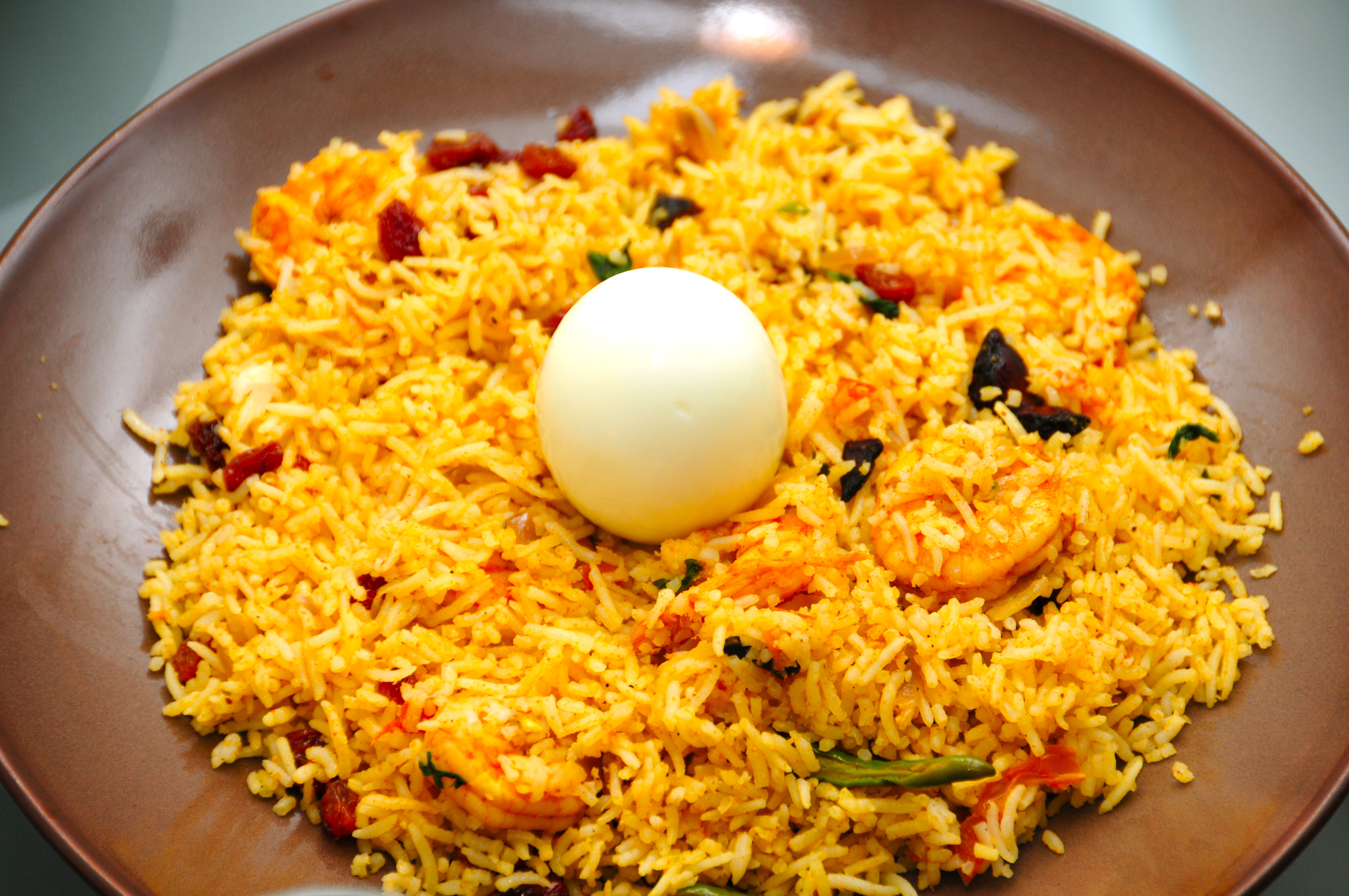 Shrimp Biriyani